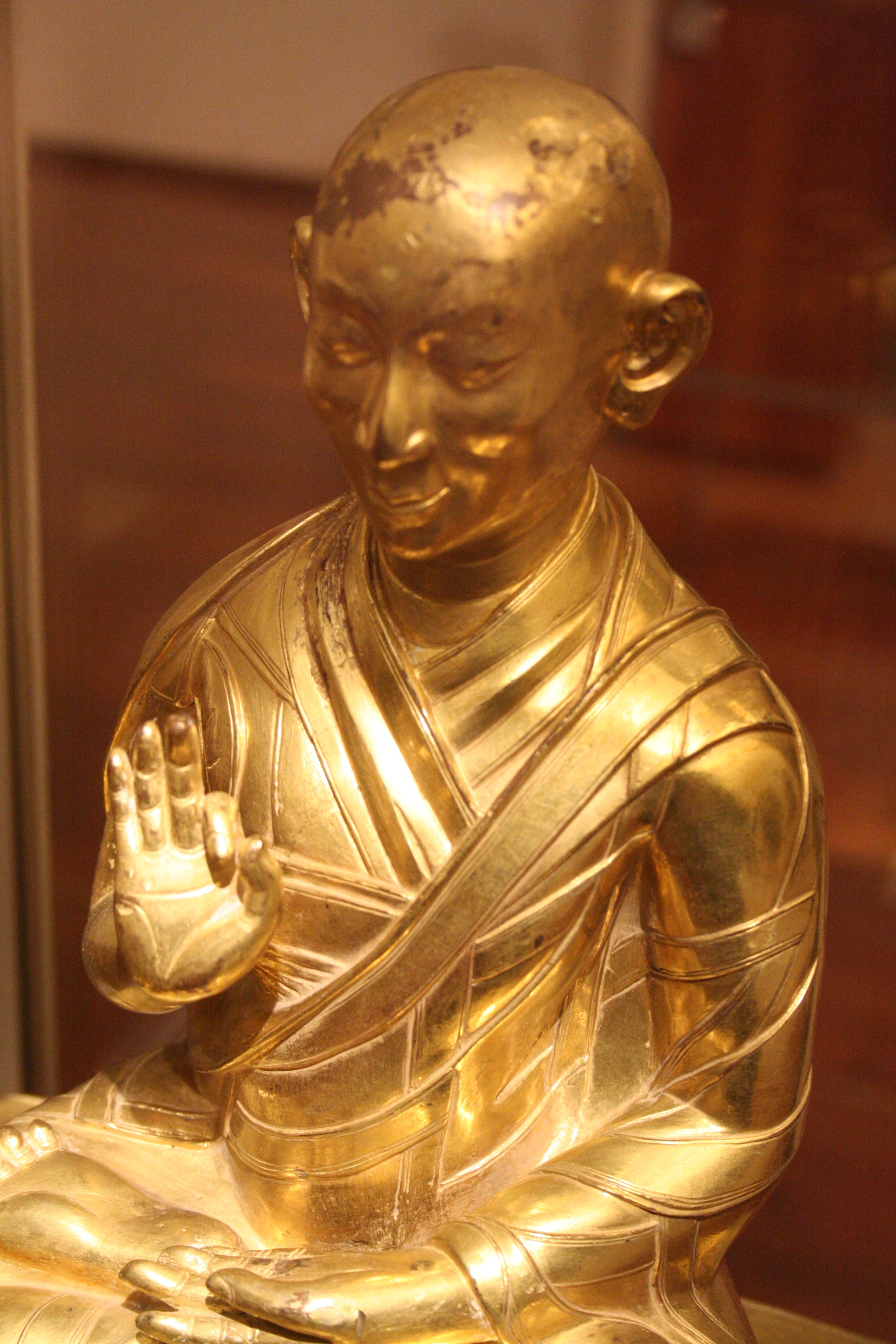 Panchen Lama statue, Musée Guimet